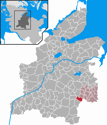 Locator maps of municipalities in Schleswig-Holstein - District Rendsburg-Eckernförde